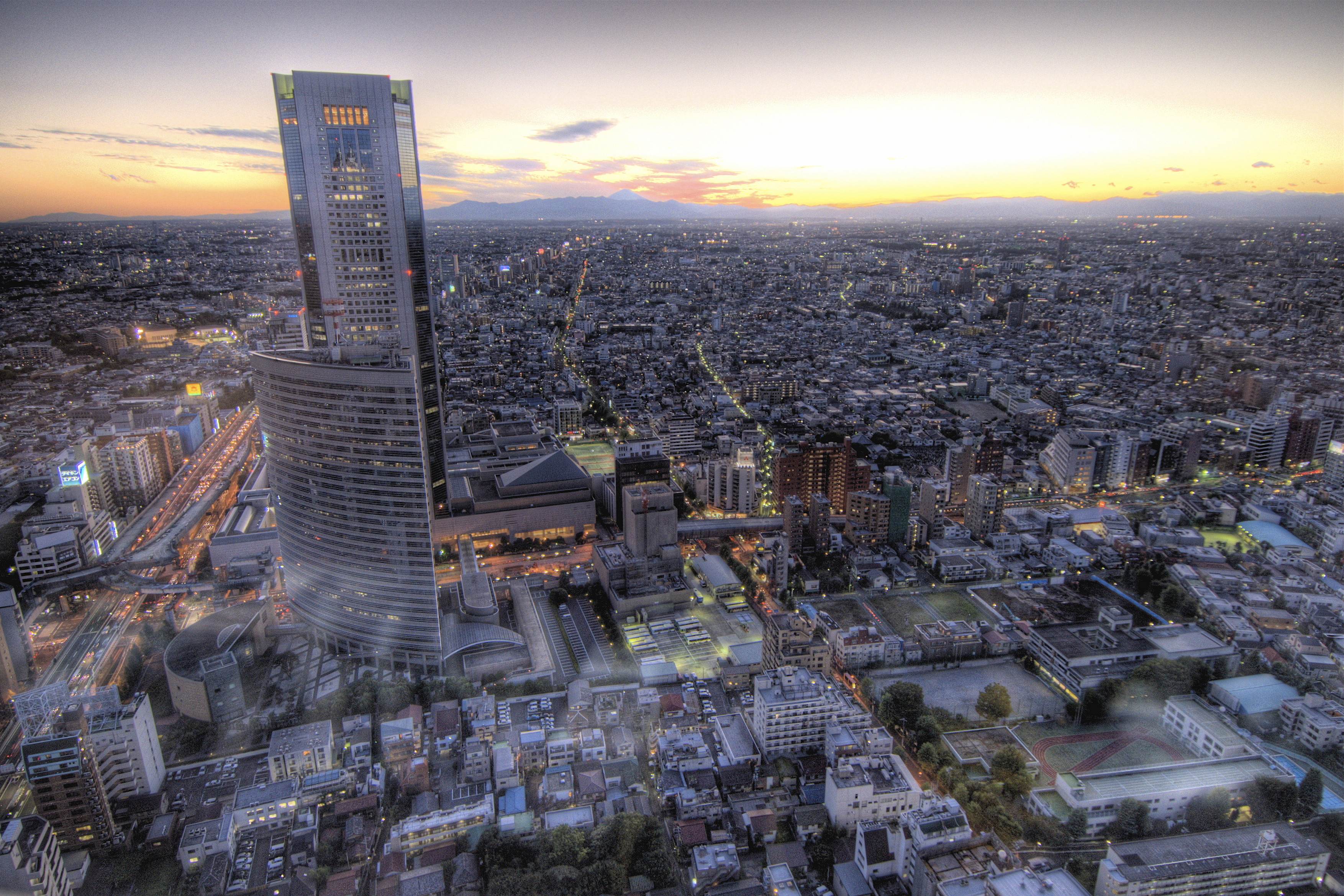 Sun setting over Tokyo. New National Theatre Tokyo and Tokyo Opera City Tower are in the foreground. Mount Fuji (in the background) was visible for the first time in three months. October 2006.